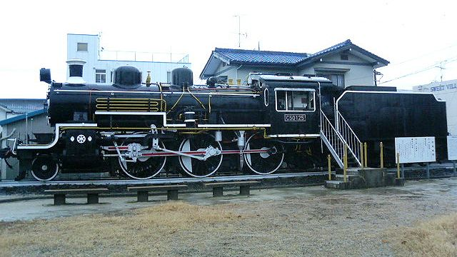 Japanese National Railways Class C50 steam locomotive C50 125 preserved in Yanai, Yamaguchi Prefecture, Japan